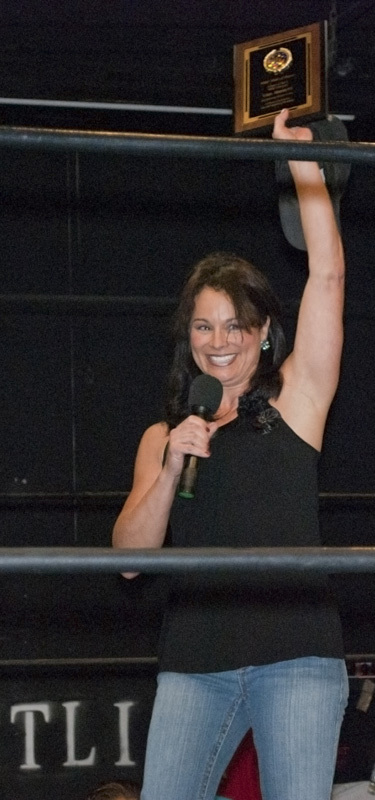 Professional wrestler Ivory (Lisa Moretti) being inducted into the Women Superstars Uncensored Hall of Fame on March 3, 2011.